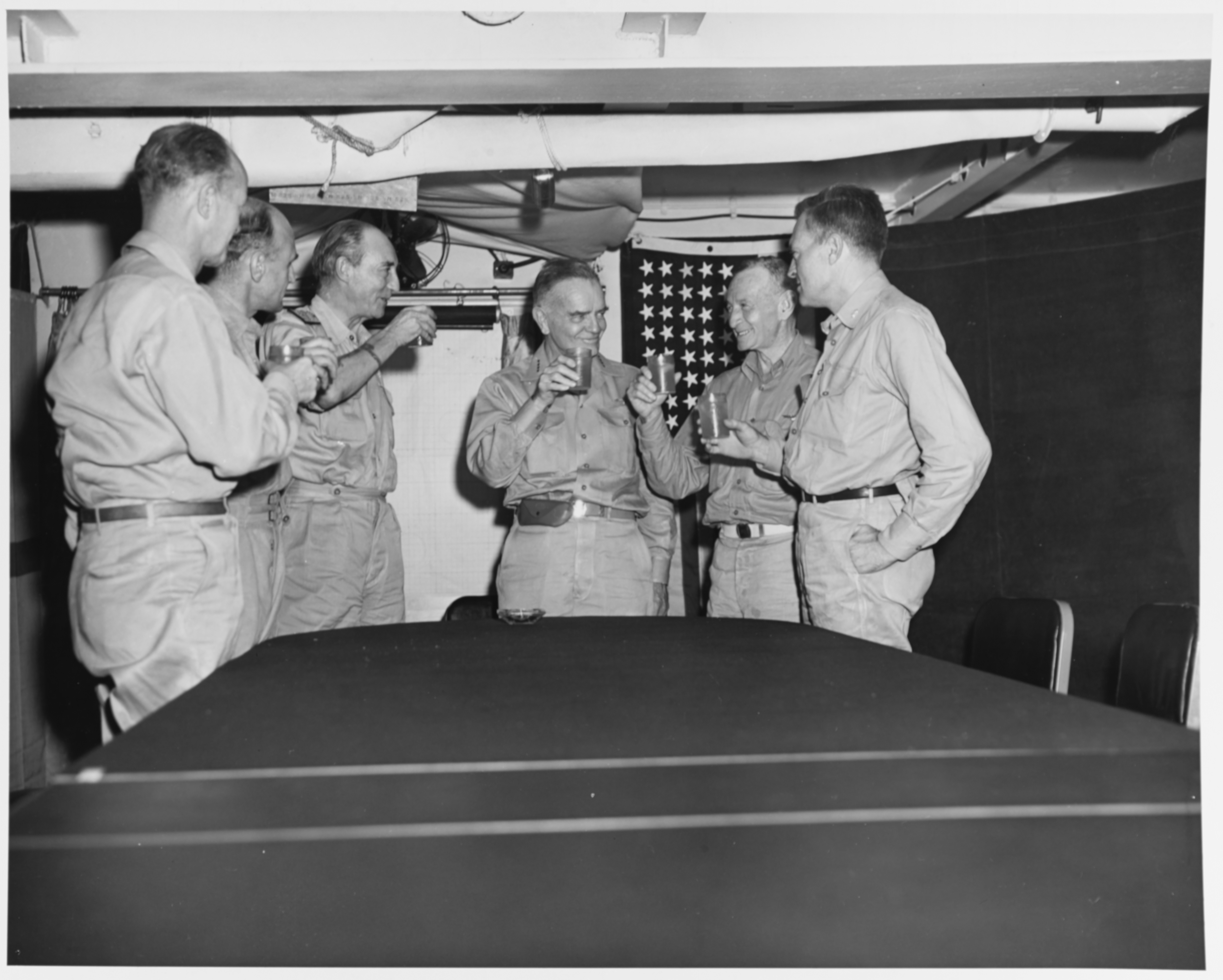 Admiral William F. Halsey, Commander, Third Fleet, and other senior U.S. and British Navy officers toast the end of World War II, aboard USS Missouri (BB-63), 22 August 1945. Those present are (left to right): Rear Admiral Robert B. Carney, USN; Captain J.P.L. Reid, RN; Vice Admiral Sir Bernard Rawlings, RN; Admiral Halsey; Vice Admiral John S. McCain, USN, and Rear Admiral Wilder D. Baker, USN. Official U.S. Navy Photograph, now in the collections of the National Archives.